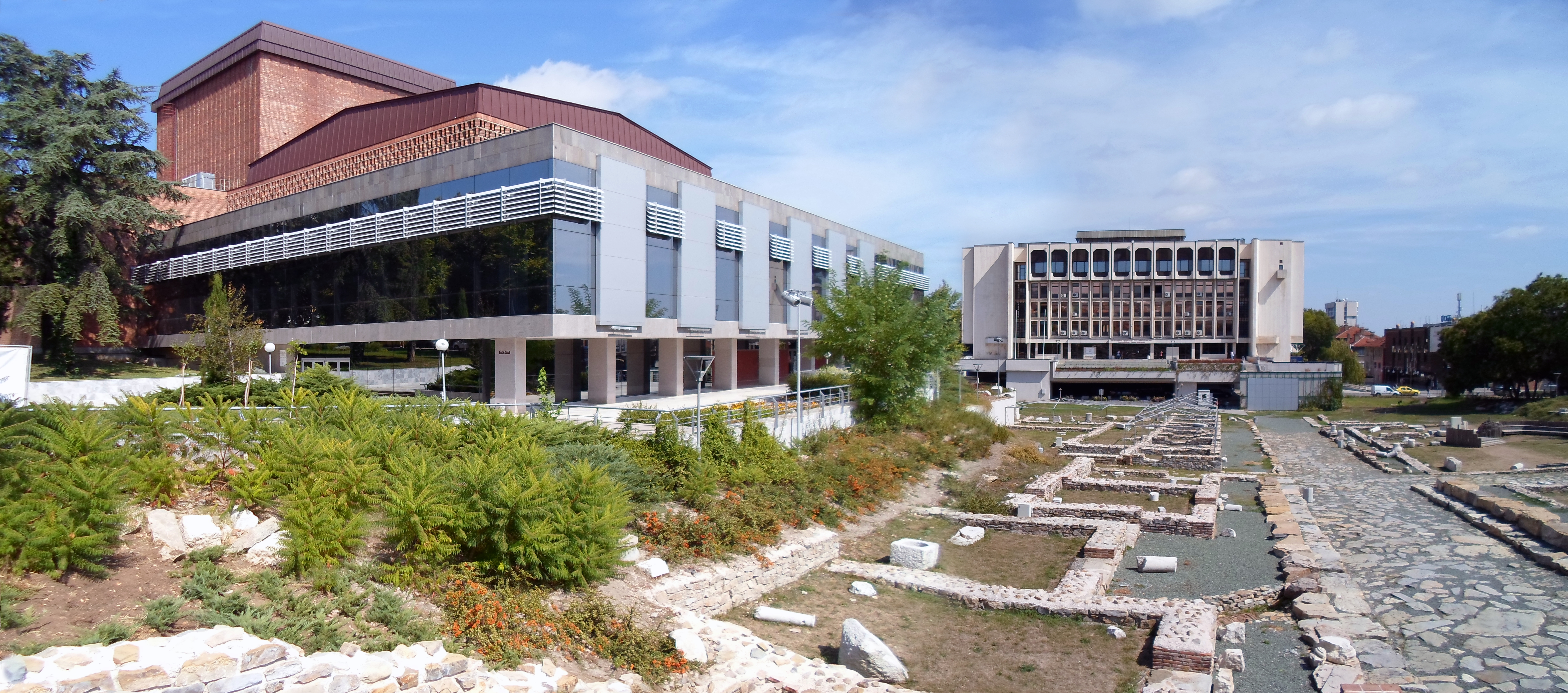 Ancient and medieval town "Augusta Traiana - Vereya", Stara Zagora, Bulgaria